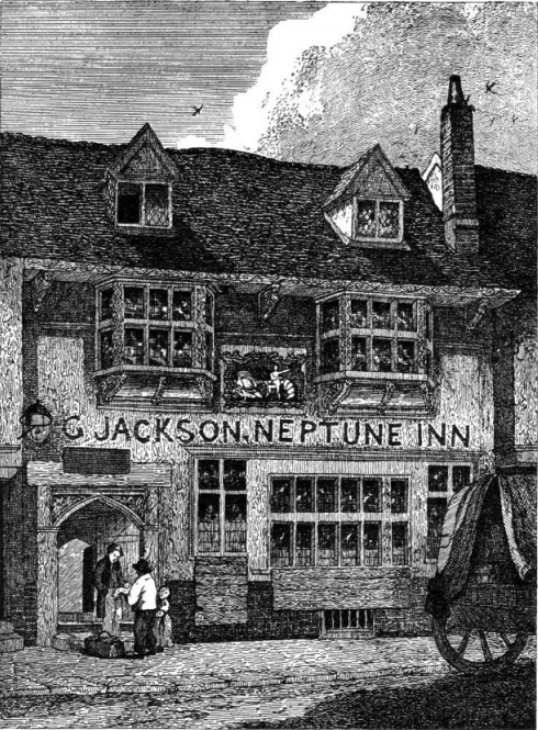 Frontage of nineteenth century building